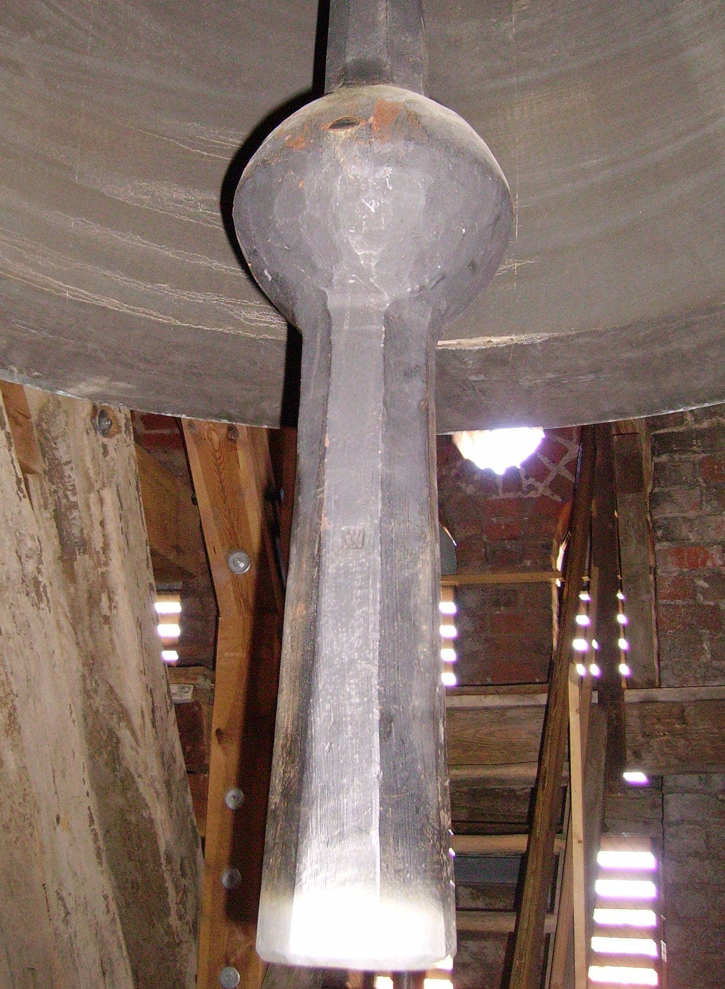 Church of Eberswalde in Brandenburg (Germany)